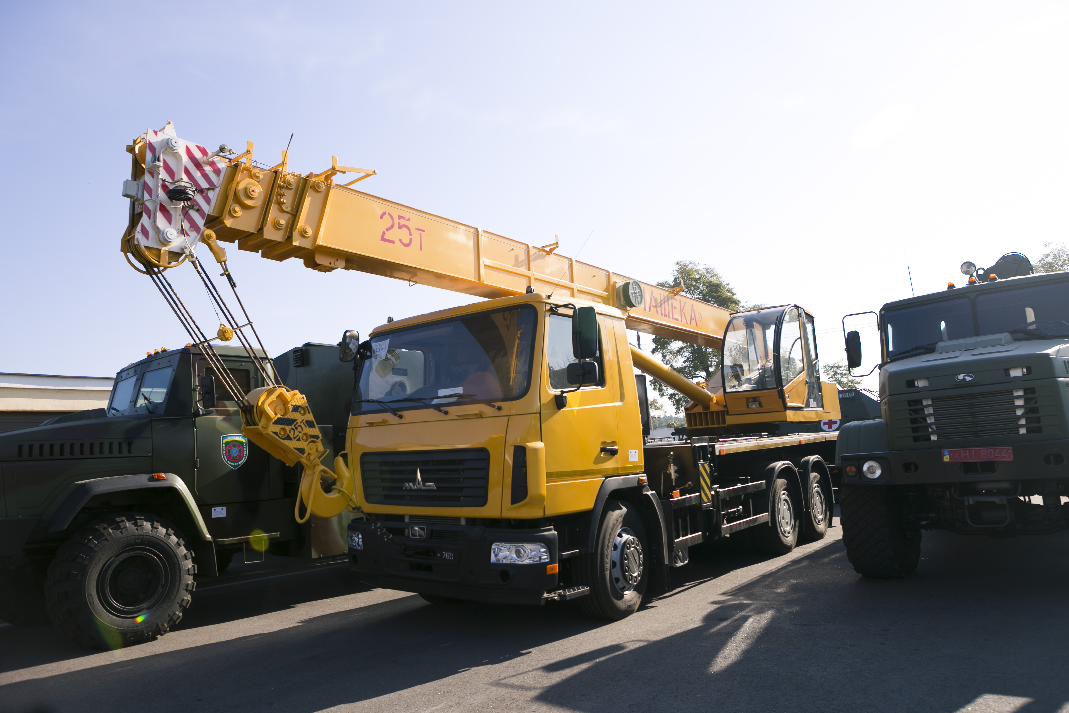 Assistant Secretary of State Victoria Nuland at a Ukrainian State Border Guard Service (SBGS) Base in Kyiv, Oct. 8, 2014